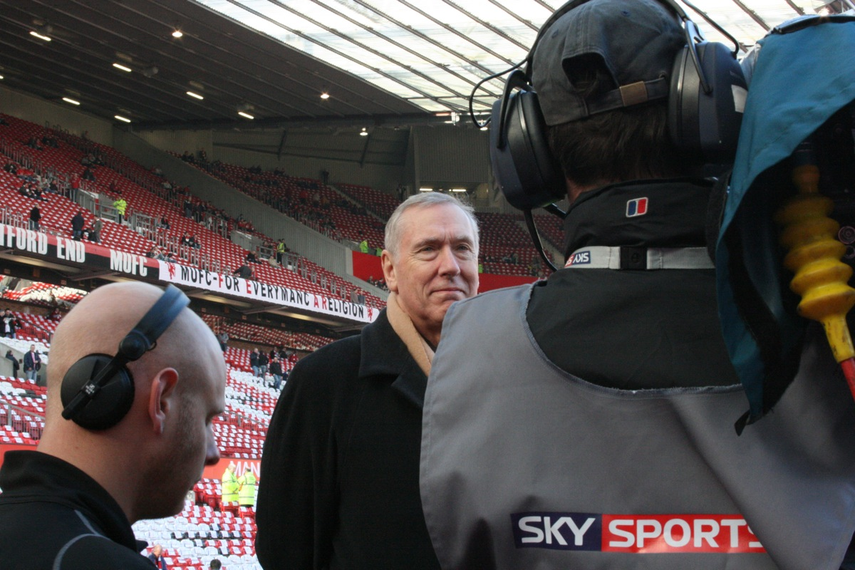 English football (soccer) commentator Martin Tyler